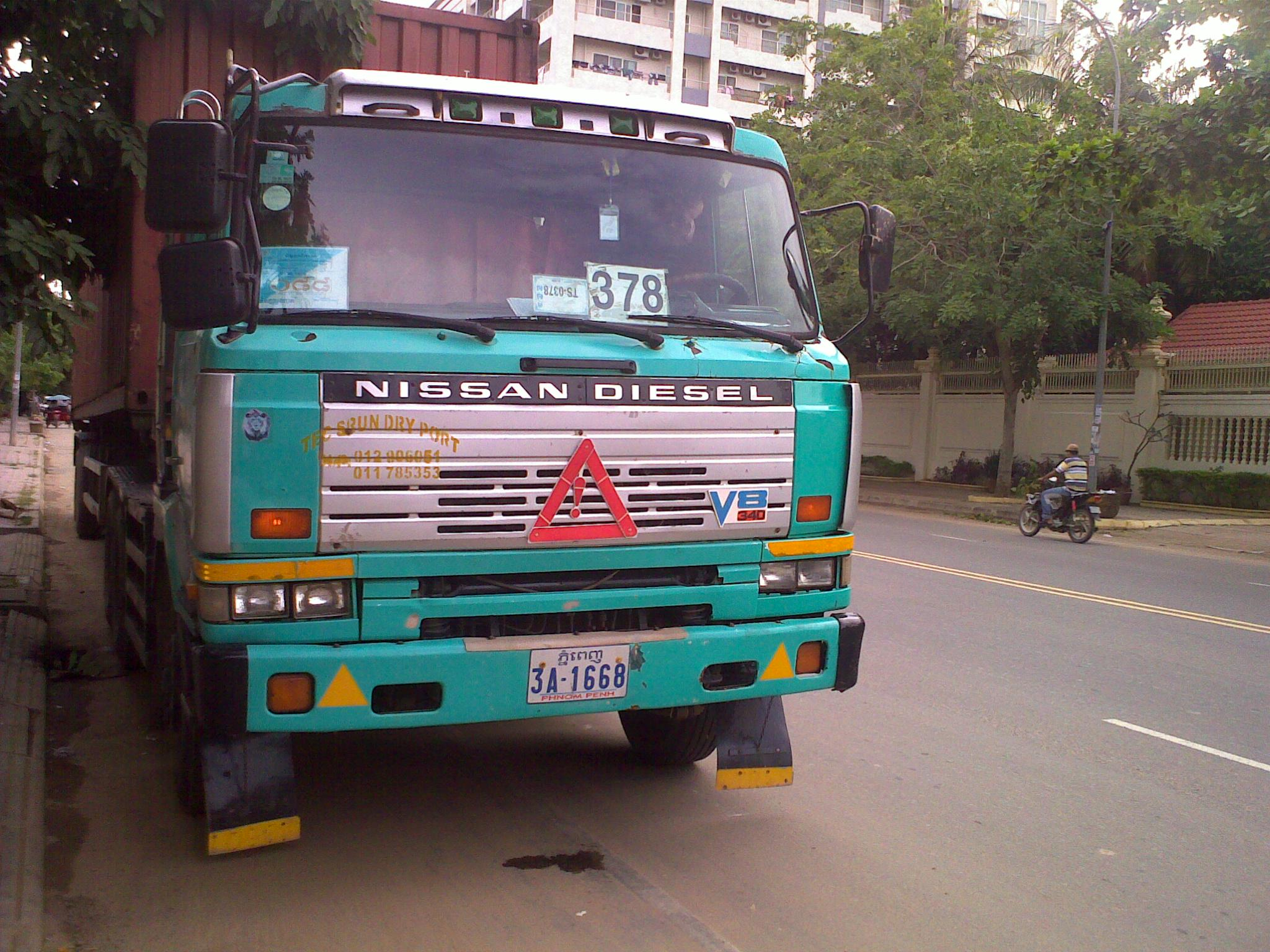 Nissan CW340 V8 Diesel Truck Phnom Penh, Cambodia. July 2011.